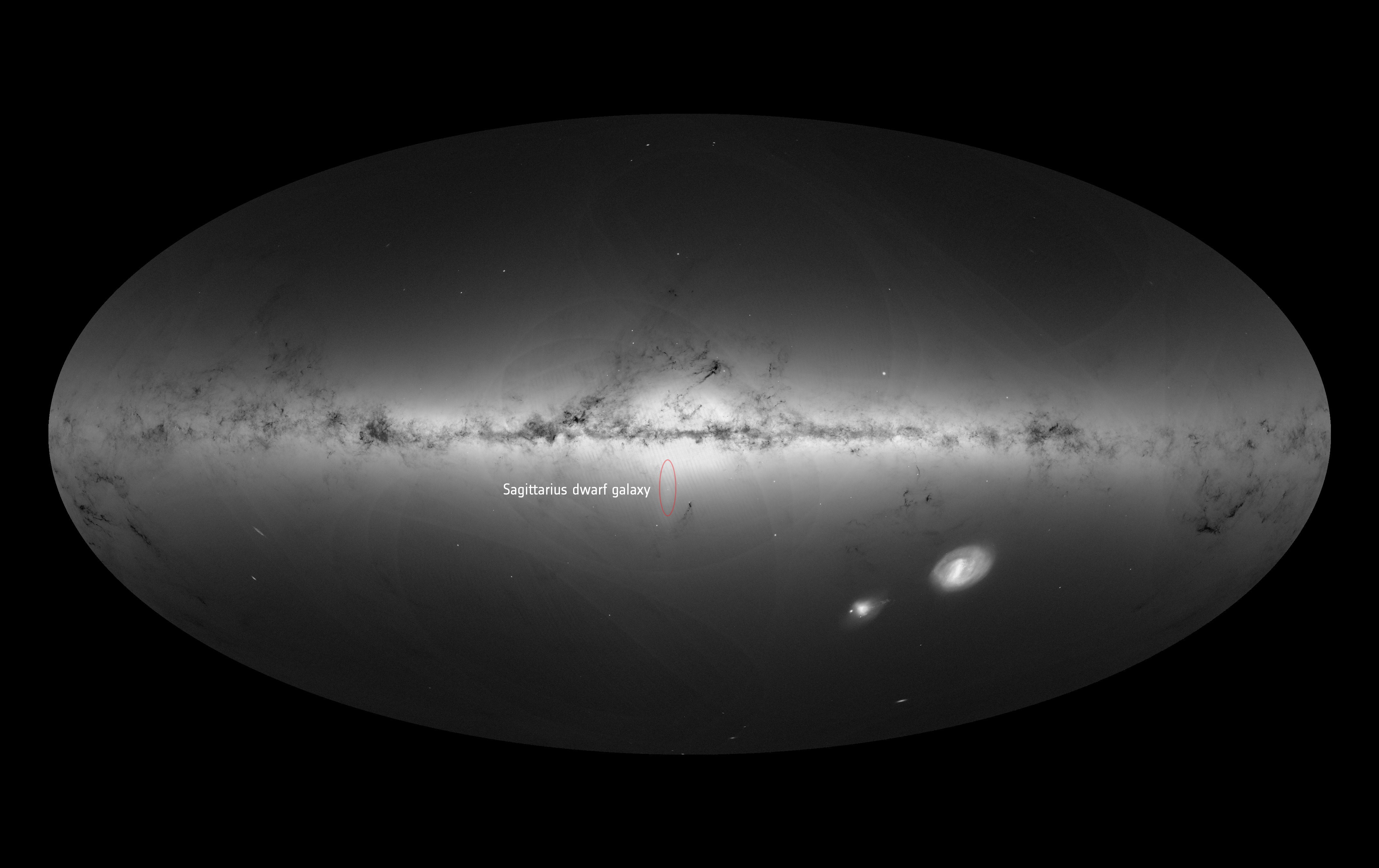 The Sagittarius dwarf galaxy, a small satellite of the Milky Way that is leaving a stream of stars behind as an effect of our Galaxy’s gravitational tug, is visible as an elongated feature below the Galactic centre and pointing in the downwards direction in the all-sky map of the density of stars observed by ESA’s Gaia mission between July 2014 to May 2016. Scientists analysing data from Gaia’s second release have shown our Milky Way galaxy is still enduring the effects of a near collision that set millions of stars moving like ripples on a pond. The close encounter likely took place sometime in the past 300–900 million years, and the culprit could be the Sagittarius dwarf galaxy. Full story: Gaia hints at our Galaxy’s turbulent life